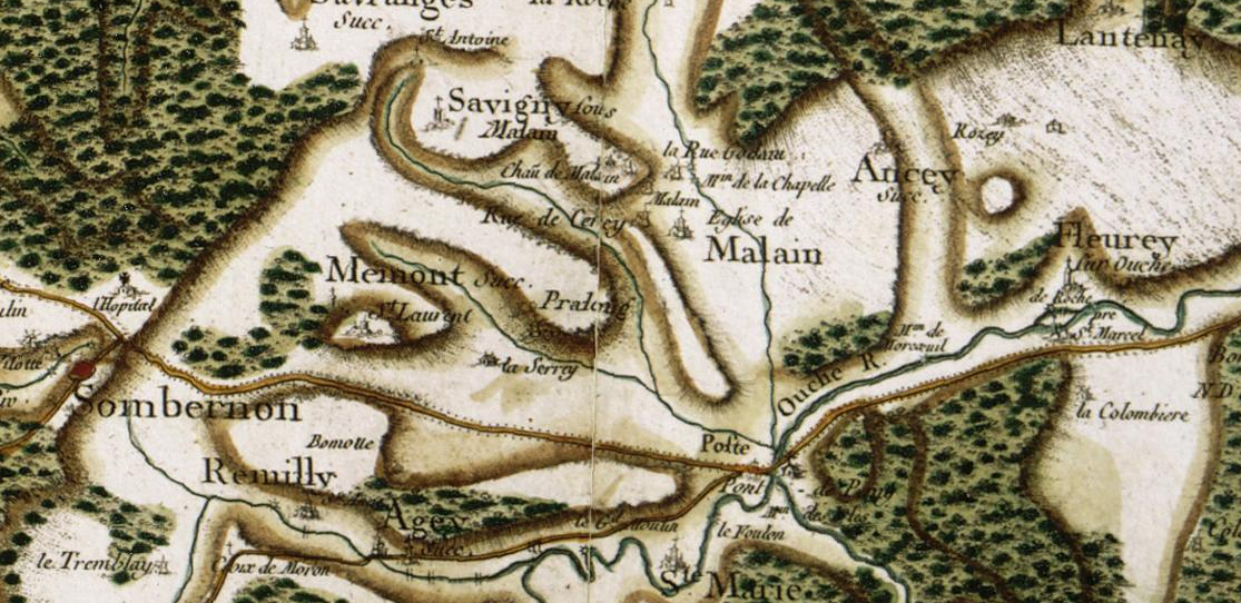 18th century Cassini map; extract showing a detail of the center part of the present departement of Côte-d'Or, with Prâlon (abbey in the past), Mâlain, Mesmont, Sombernon and surroundings. The "route de Paris à Lyon par la Bourgogne" runs across the bottom of the picture.